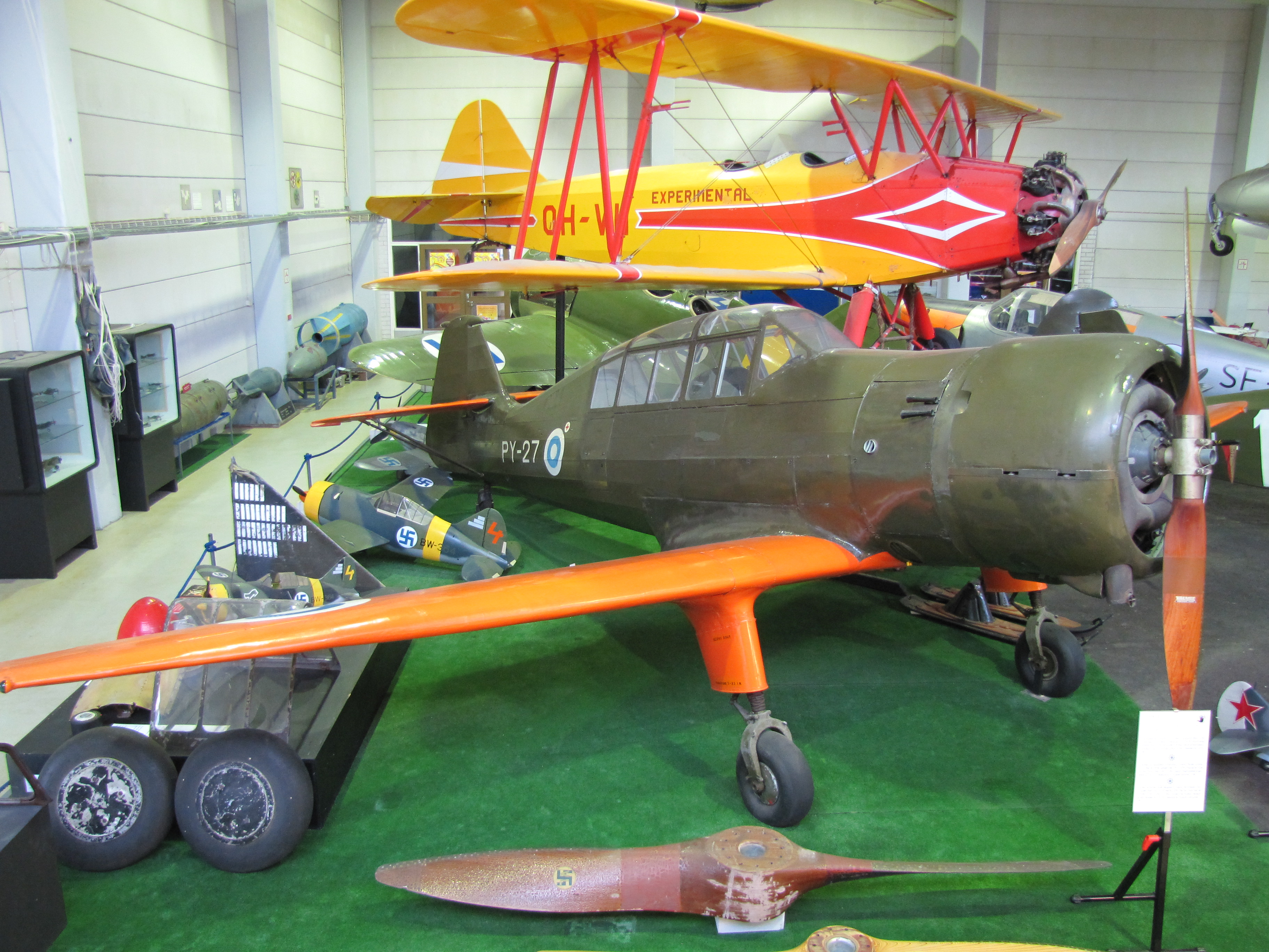 VL Pyry II PY-27 fighter trainer and VL Viima II OH-VII, former VI-21 primary trainer in Finnish Aviation Museum.